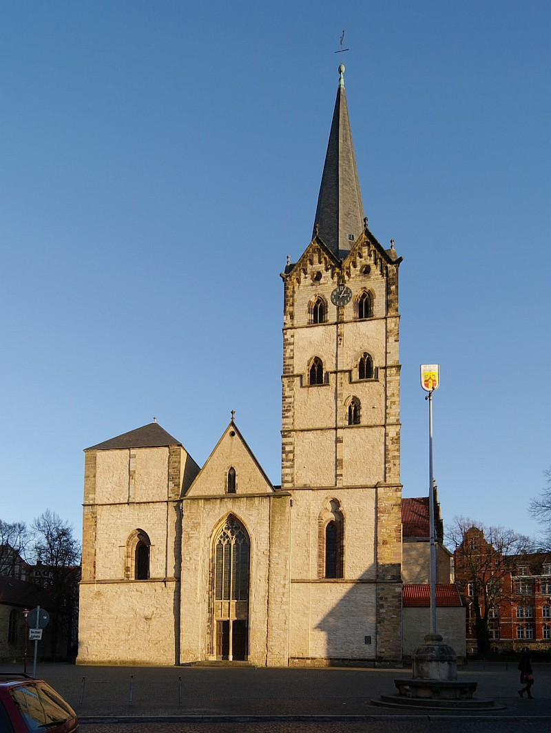 Münsterkirche in town of Herford, District of Herford, North Rhine-Westphalia, Germany.